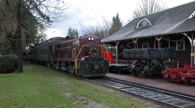 Train pulling into the Snoqualmie depot.